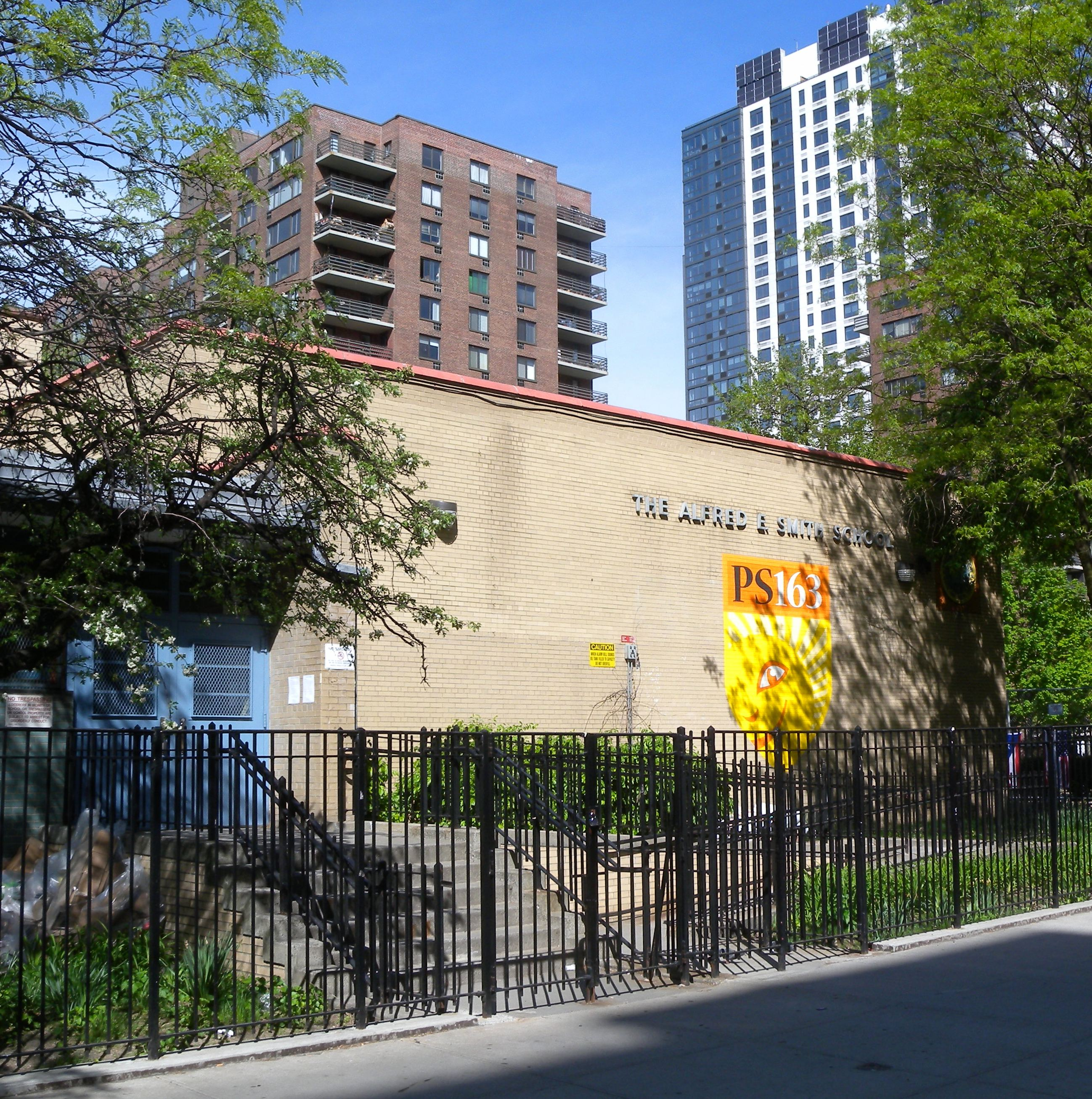 Looking northeast at Smith School on a sunny afternoon.